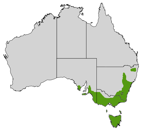 Adapted from Taylor, Anne; Hopper, Stephen (1988) The Banksia Atlas (Australian Flora and Fauna Series Number 8), Canberra: Australian Government Publishing Service, p. 153 ISBN: 0-644-07124-9. (incorporates official herbarium data from that page). Base map of Australia was File:Australia map, States.svg